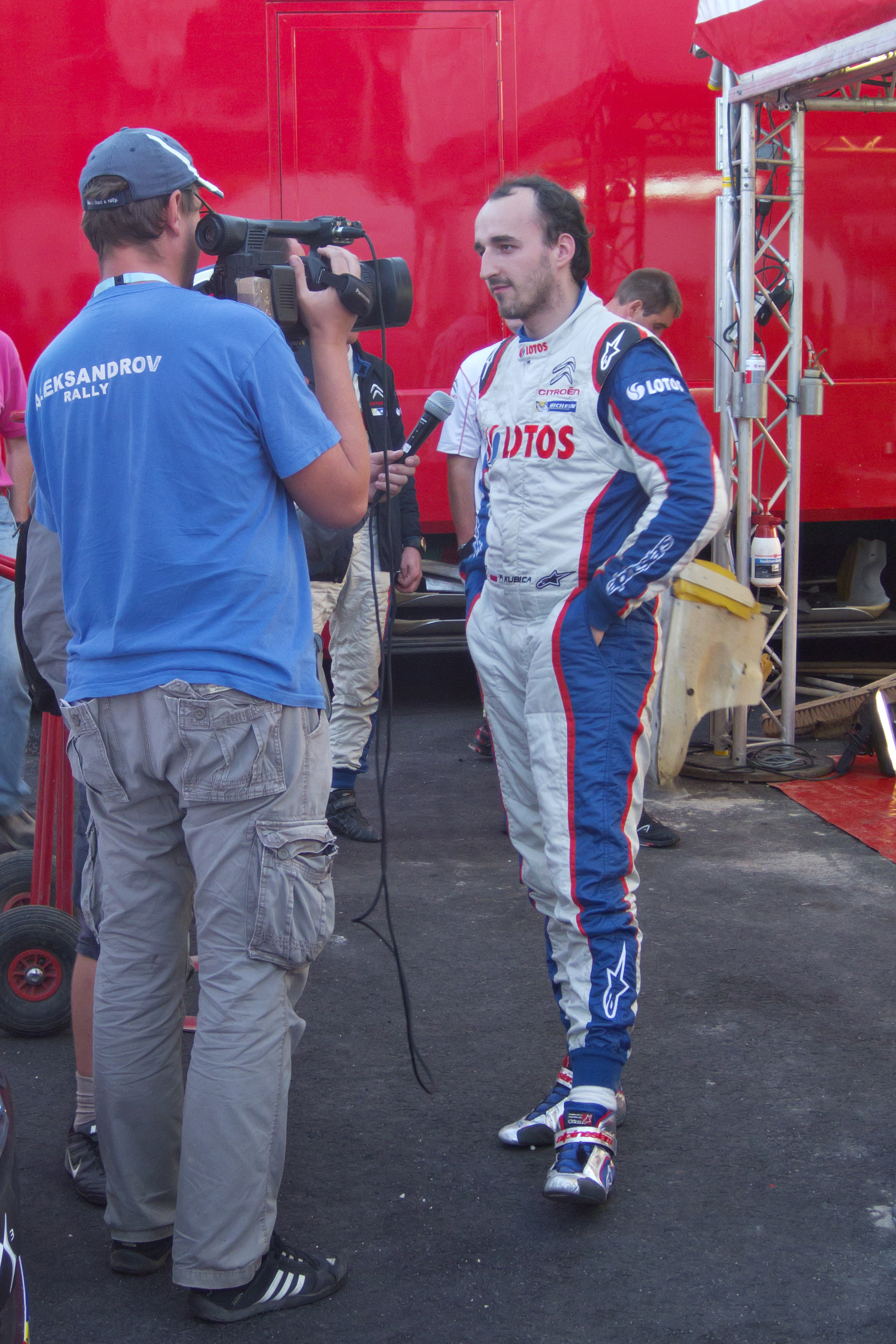 Friday evening service at the Service Park of the 2013 Rally Finland.